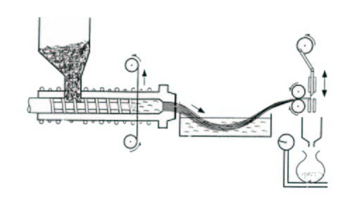 A schematic showing the granulation of plastic materials as used in the chemical industry. The image here has originally been intented for small scale production (ie in small-scale plastic material recycling centres). The image was made based on an image of ISF-IAI. A full manual regarding plastic material recycling has been made available at ([1])